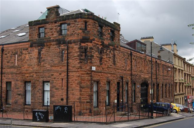 The Haldane Building. Situated in Hill Street, this building is a part of The Glasgow School of Art. It houses the Careers Service, the Department of Ceramics, and the Fine Art Workshops.